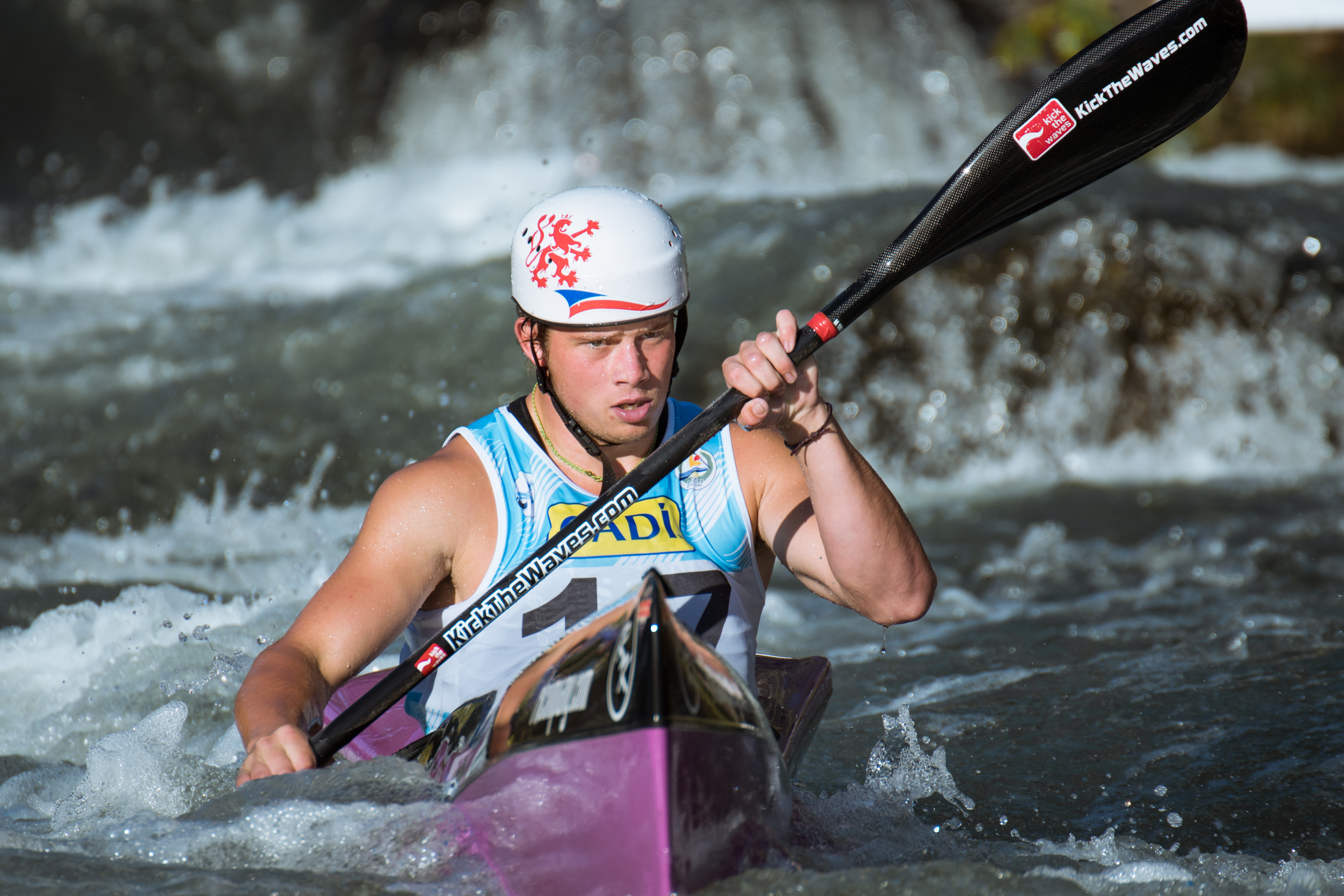 Vojtěch Zapletal during the 2019 Canoe Wildwater World Championships in La Seu d'Urgell, Spain.